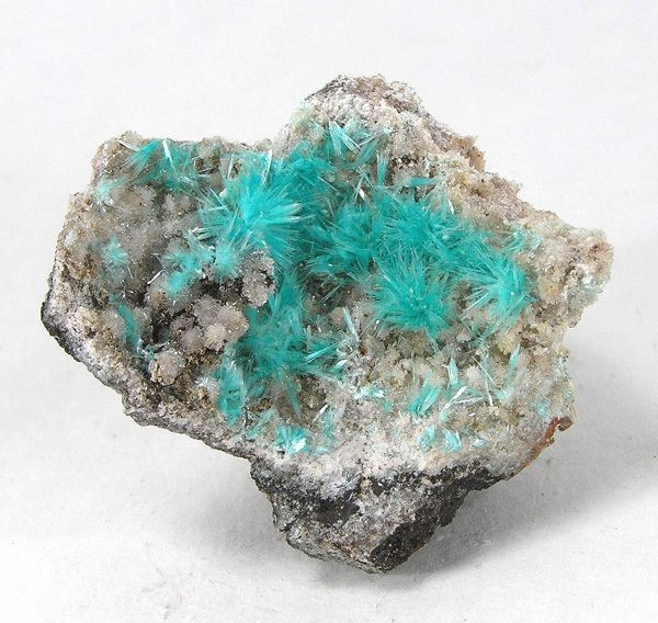 Aurichalcite Locality: 79 Mine (79th Mine; Seventy-Nine Mine; Seventy-Nine property; McHur prospect), Chilito, Hayden area, Banner District, Dripping Spring Mts, Gila County, Arizona, USA (Locality at ) Size: 4.9 x 4.6 x 3.1 cm. Bright blue-green tufts of acicular crystals of the copper-mineral aurichalcite, from the legendary 79 Mine in Arizona. The crystals are like little starbursts of fine needles.